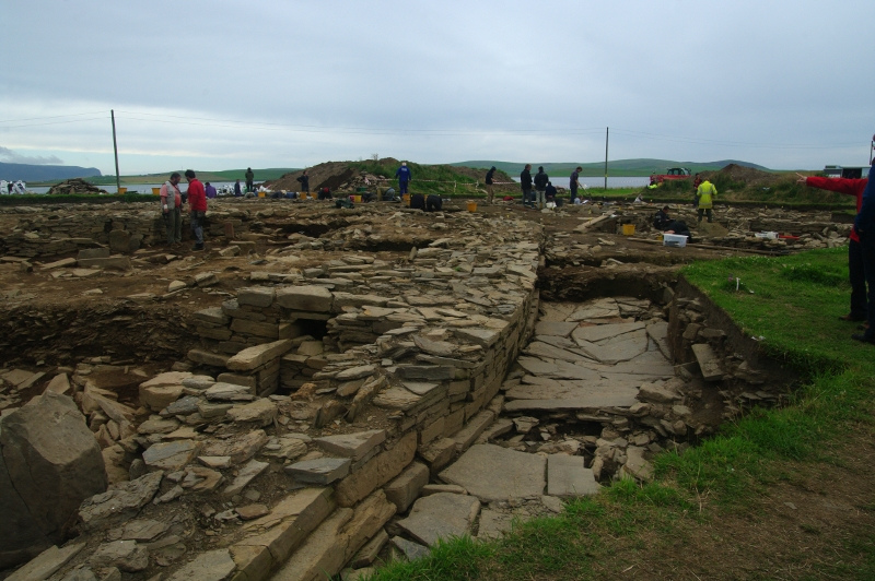 The excavations by Orkney College at the Ness of Brodgar, Orkney, Scotland.